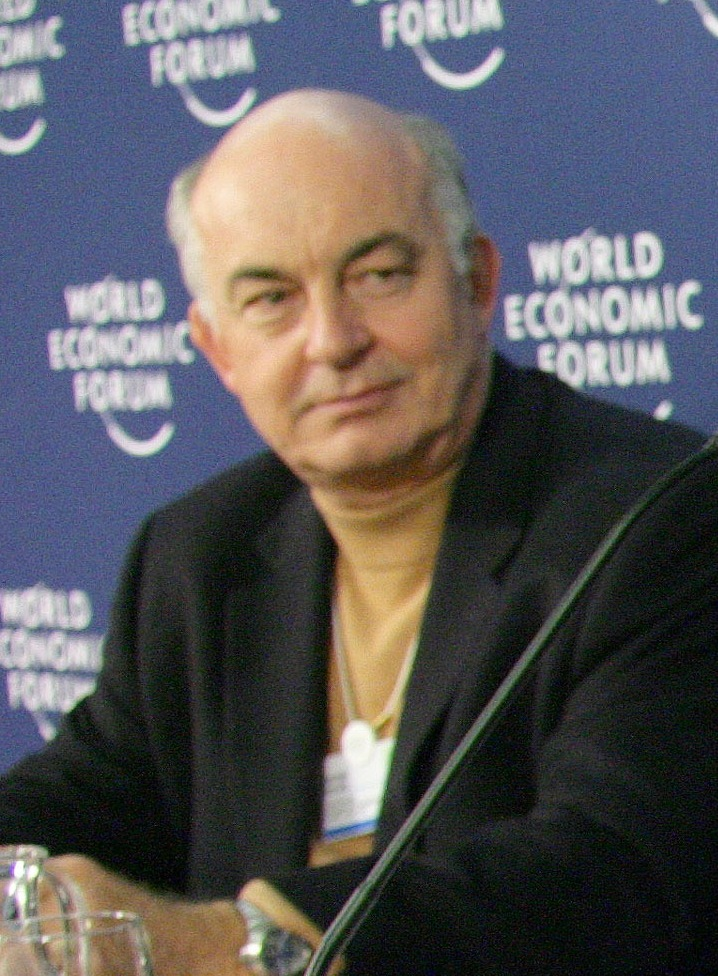 Kemal Dervis, Administrator, United Nations Development Programme (UNDP), during the Annual Meeting 2006 of the World Economic Forum in Davos, Switzerland, January 28, 2006